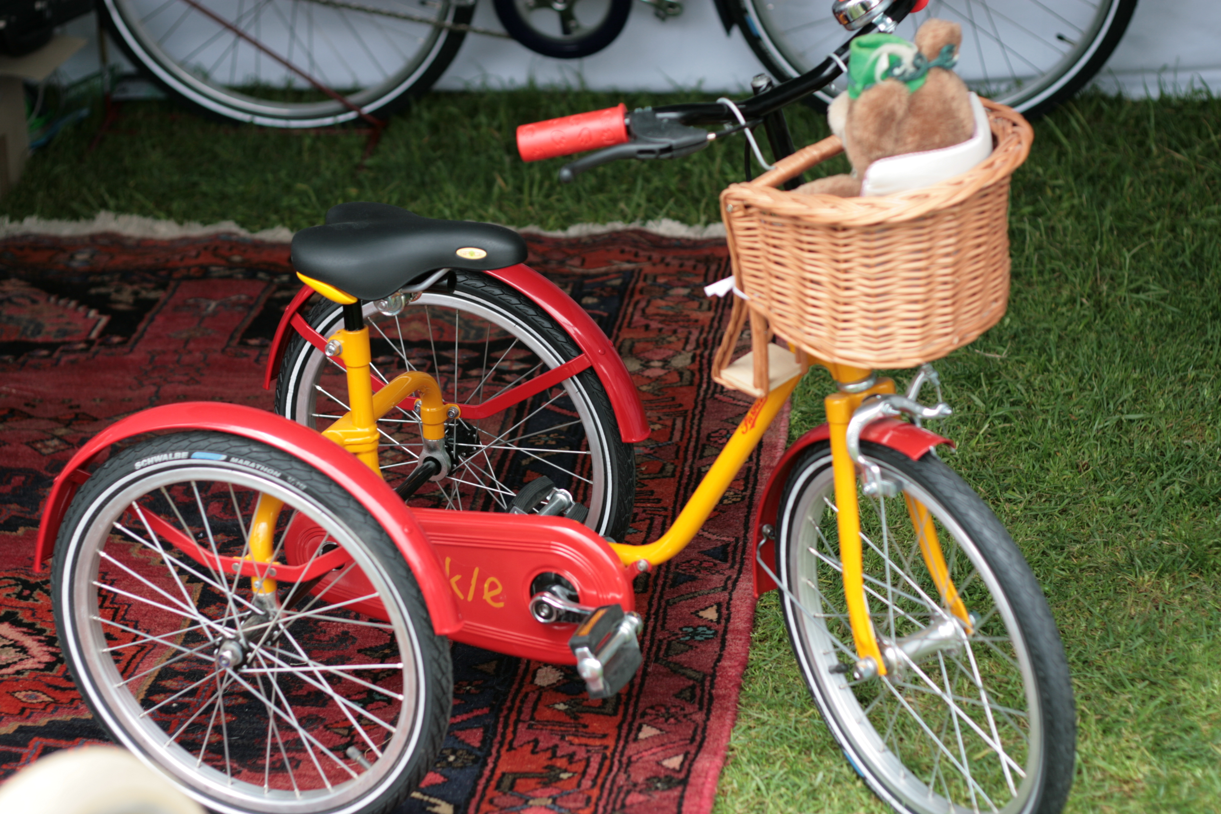 ...I asked her "Would you like a bike with 2 wheels?" Her response "No WAY!"